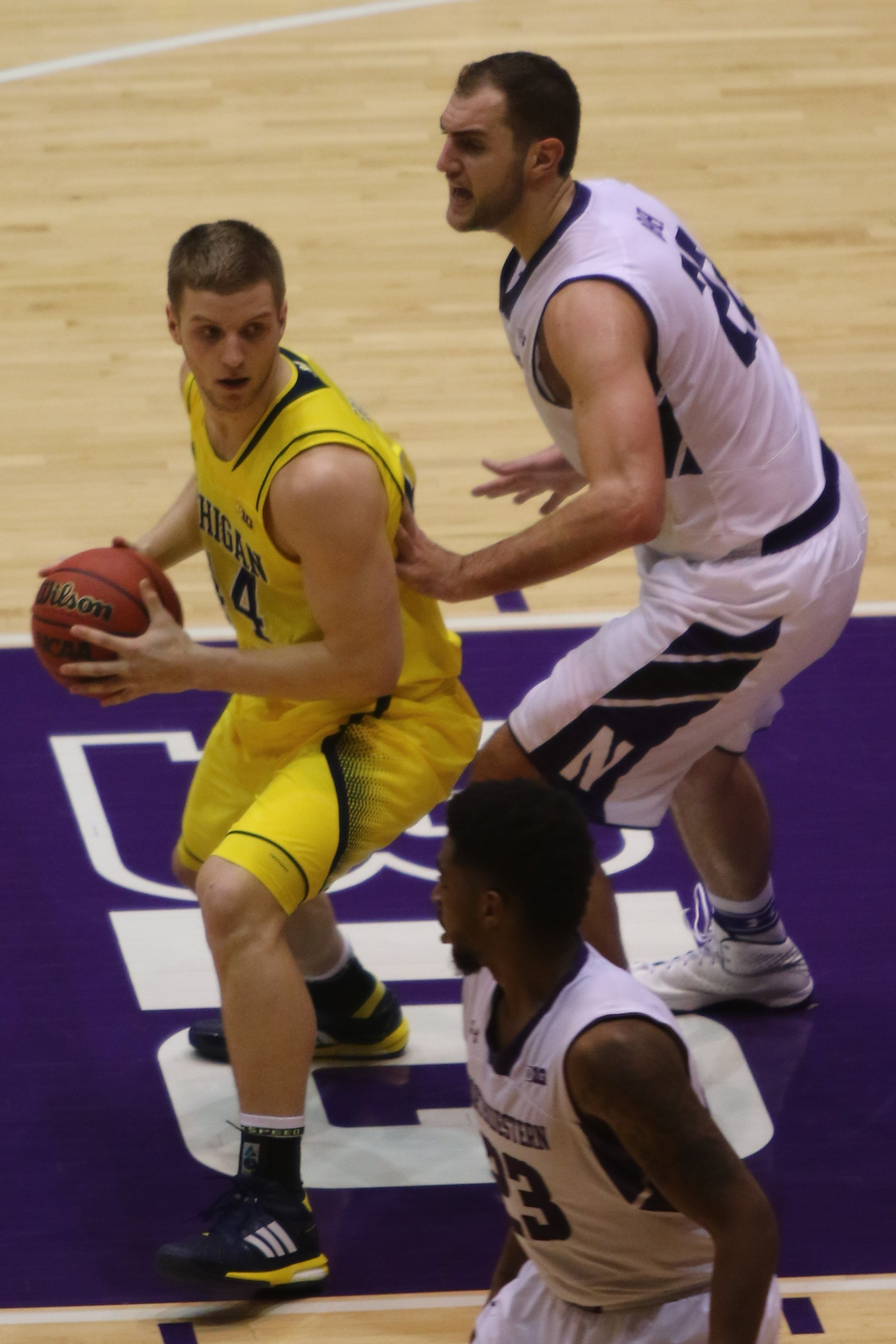 Max Bielfeldt for the w:2014–15 Michigan Wolverines men's basketball team at Welsh-Ryan Arena